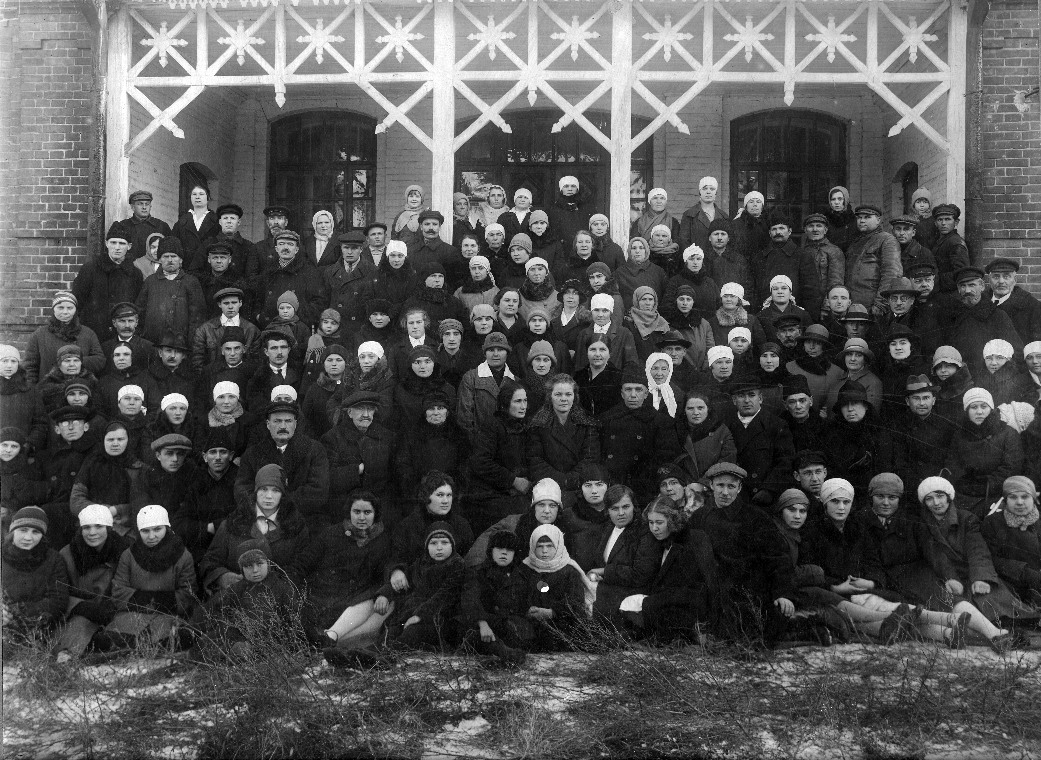 This is a family archive item, the picture was taken in 1930, and portraits the staff of the regional hospital bidding farewell to their manager (as written on the back side of the photo)